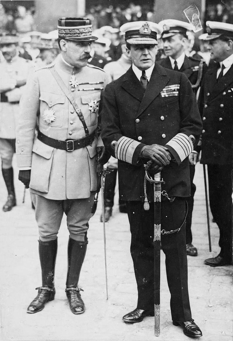 Les marins anglais à Paris. Le général Pierre Berdoulat, gouverneur de Paris, et l'amiral David Beatty.